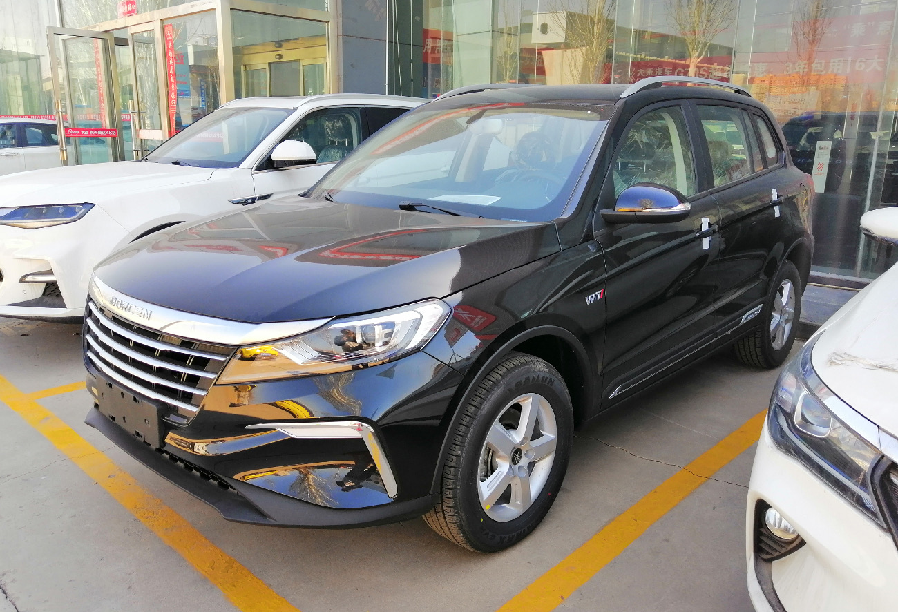 Dorcen G60 photographed in Hohhot, Inner Mongolia autonomous region, China.